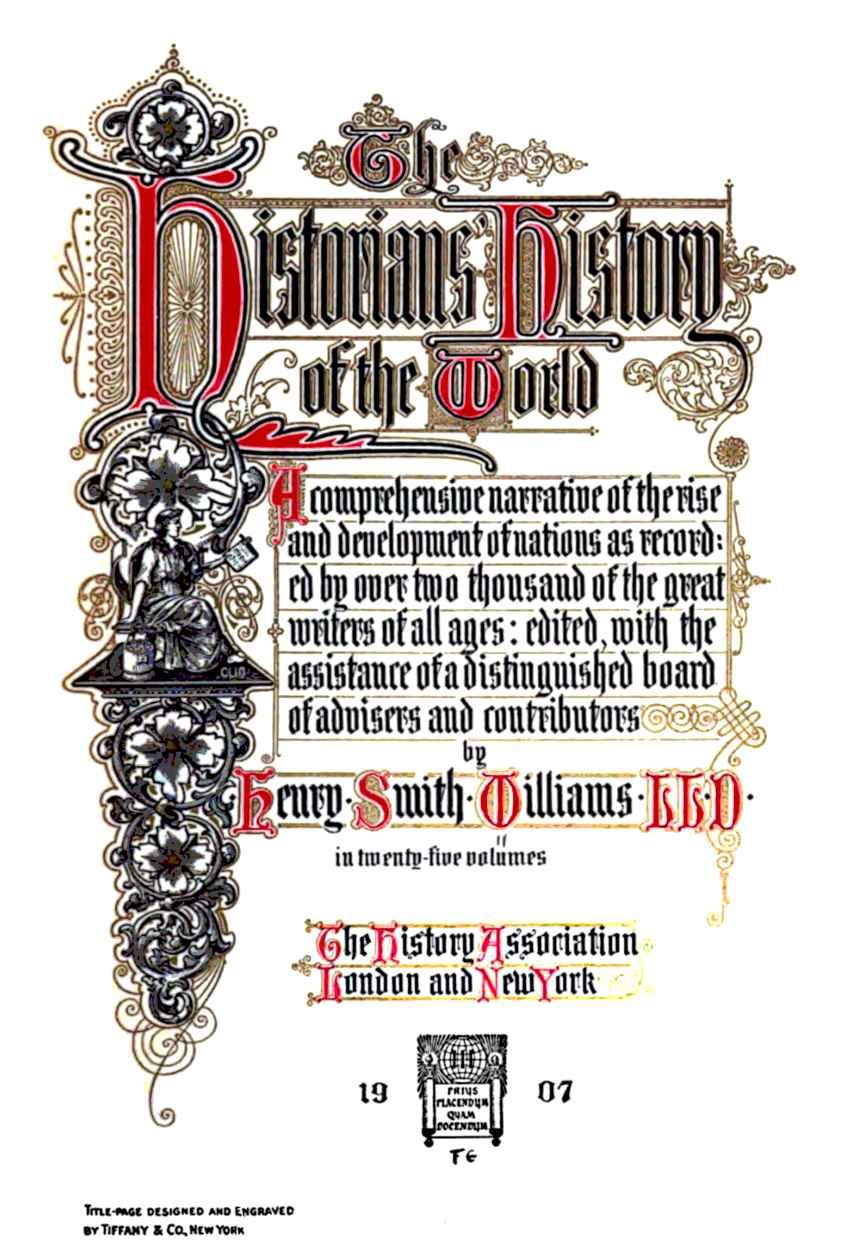 The Historians' History of the World: A Comprehensive Narrative of the Rise and Development of Nations as Recorded by Over Two Thousand of the Great Writers of All Ages is an encyclopedia of history published in English near the beginning of the 20th century in the United States and Europe.